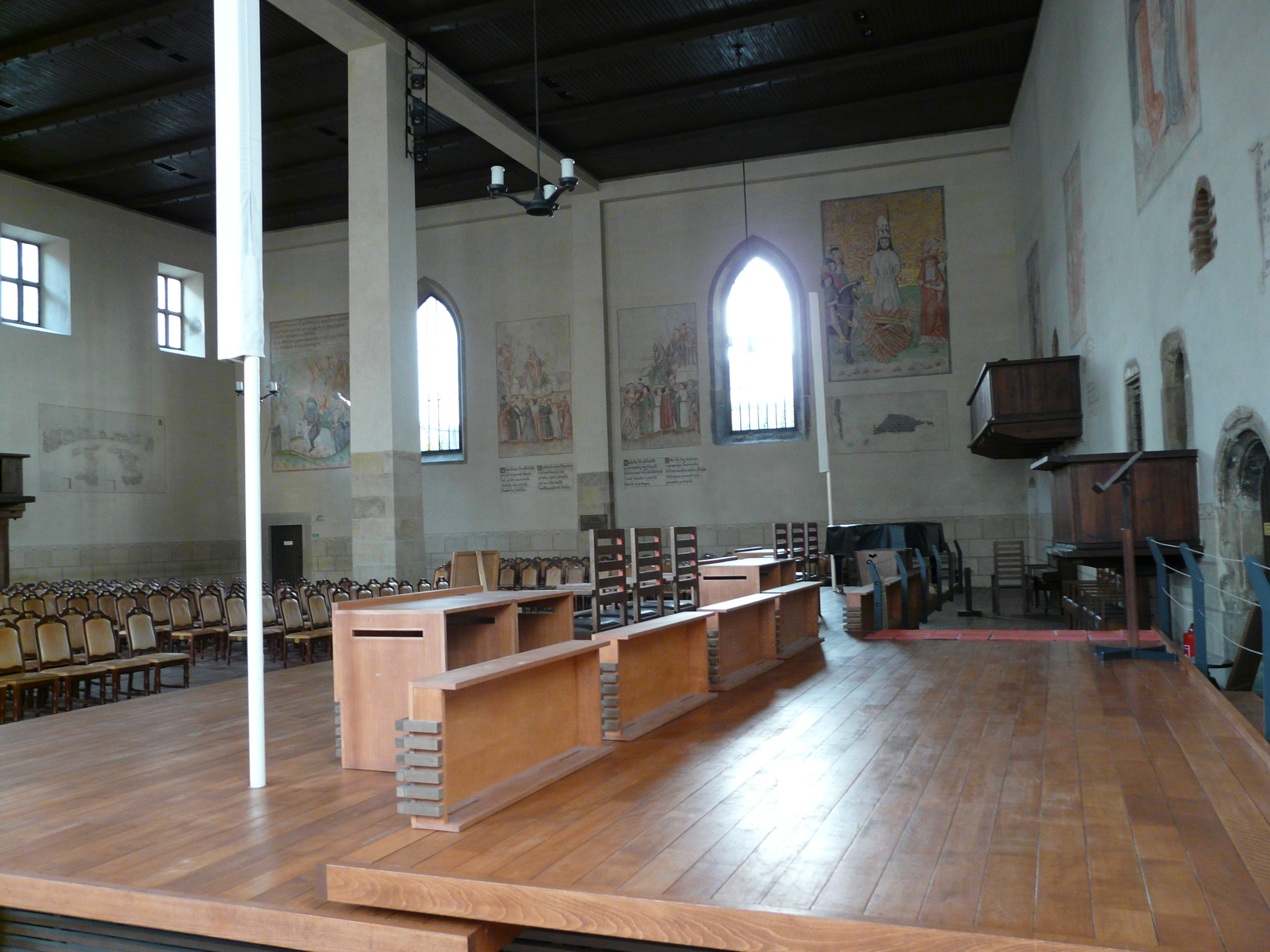 Bethlehem Chapel, interior of Hussite church in Prague